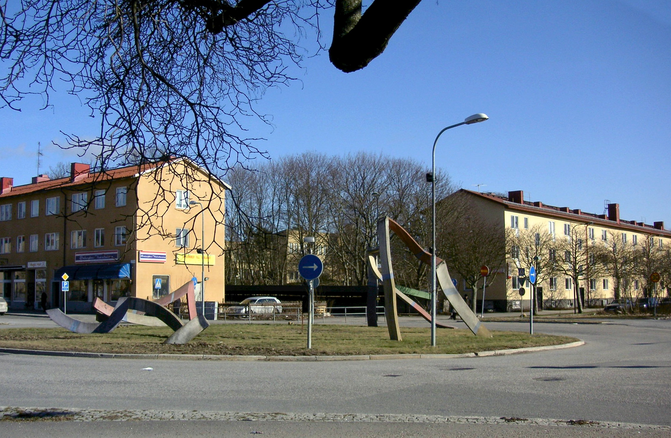 Sockenplan at the border between the districts of Enskedefältet, Enskede gård and Gamla Enskede in Stockholm, Sweden. View from Enskedefältet towards Gamla Enskede. The concrete sculpture in the roundabout, Girland (Garland) by Graham Stacy (1940—), was erected in 1993.